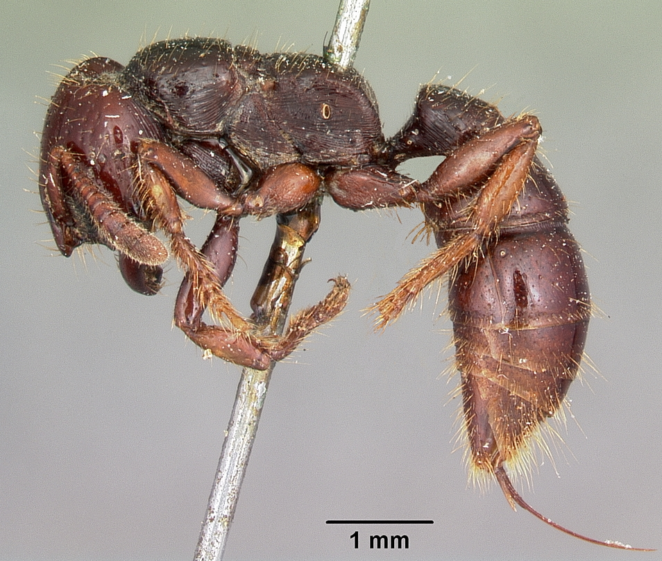 Profile view of ant Myopopone castanea specimen casent0104581.